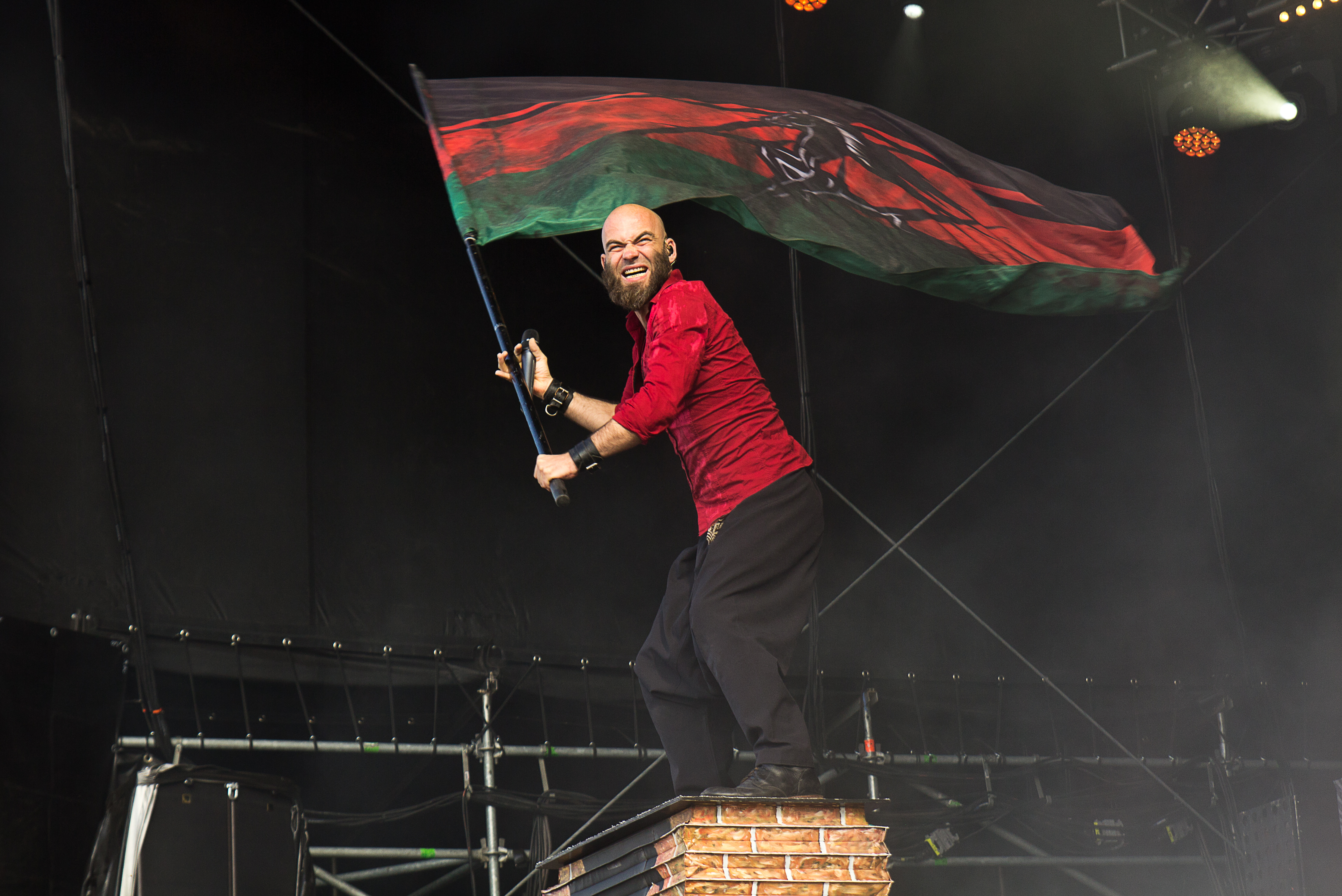 The German metal band Die Apokalyptischen Reiterat the Rockharz Open Air 2015 in Ballenstedt/Germany.